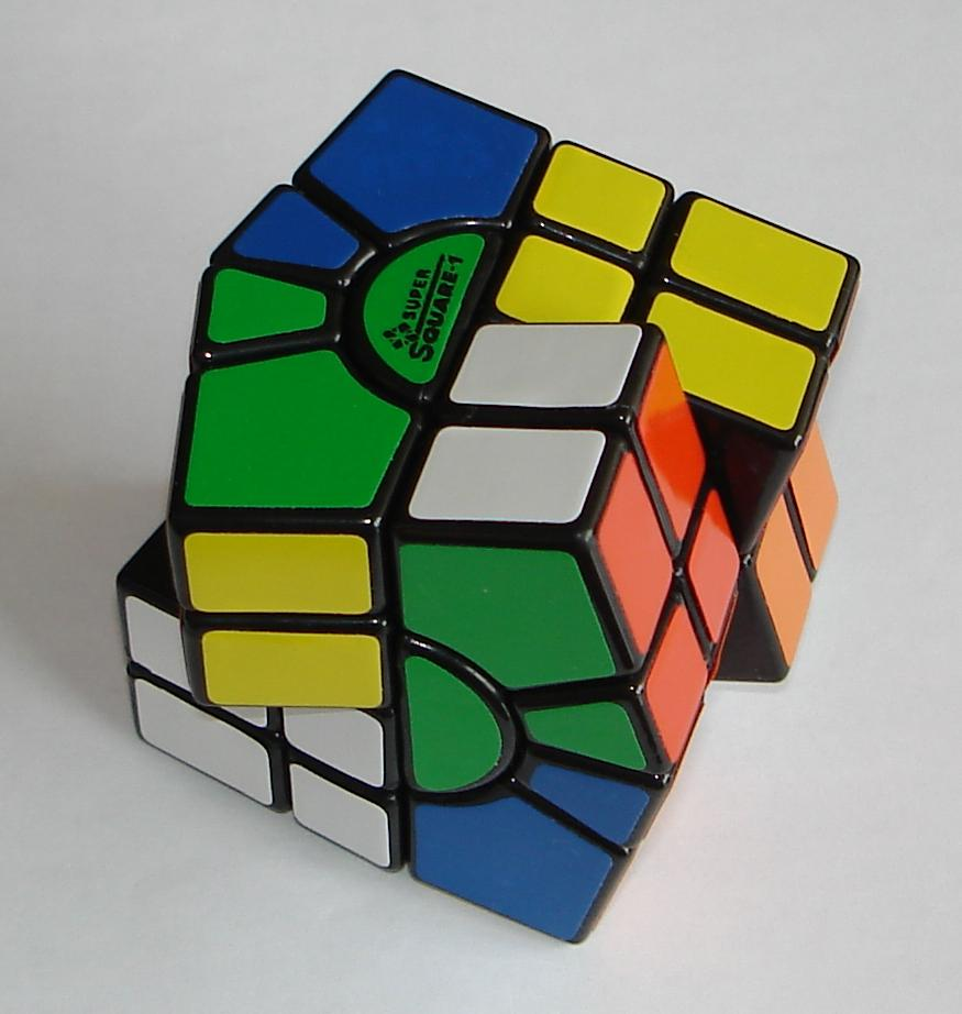 The Super Square One, in one of its many shapes